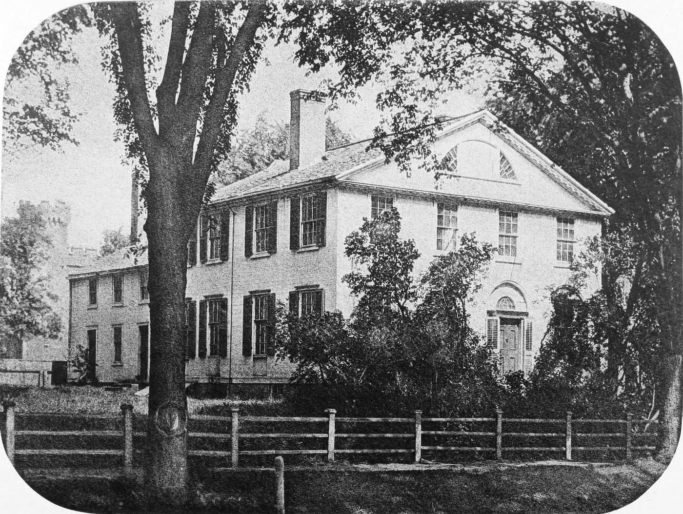 Photograph of Yale College Second President's House, 1800-1846.